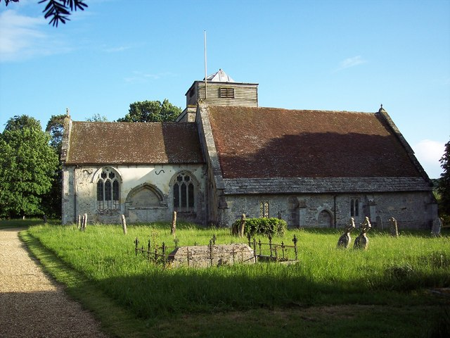 Church of St George, Damerham Damerham Church, dedicated to St George, is a very ancient building, dating from the early Norman period an possibly in existence in Saxon times when King Edmund of the West Saxons, who reigned 939-946, held estates in Damerham, then called Domerahamm, a place of the Judges.